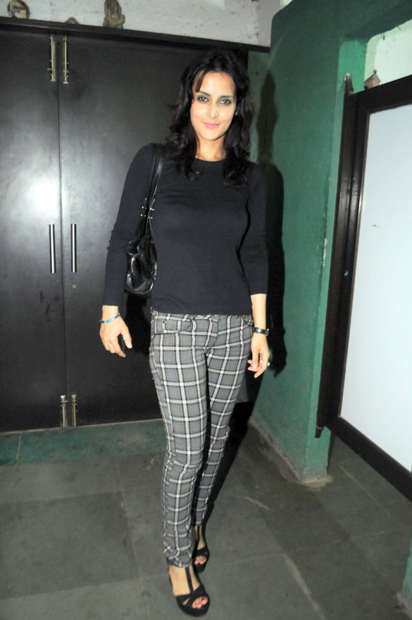 Tulip Joshi interacts with young girls at Arts in Motion's 'Dance with Joy' event